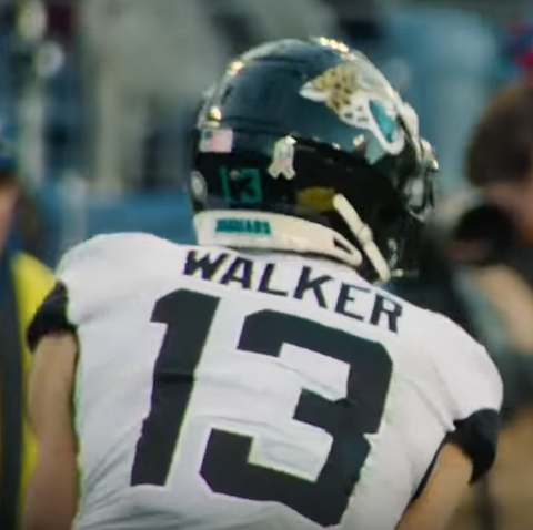 Michael Walker 2019. Image from video Titans Mic'd Up vs. Jaguars (Week 12) | Sounds of the Game, ~ 02:29